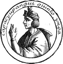 Portrait of Capac Yupanqui, detail of the frontispiece to the fifth Decade of Historia general de los hechos de los castellanos en las Islas y Tierra Firme del mar Océano que llaman Indias Occidentales by Antonio de Herrera